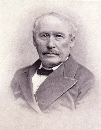 Martin Russell Thayer (1819-1906)